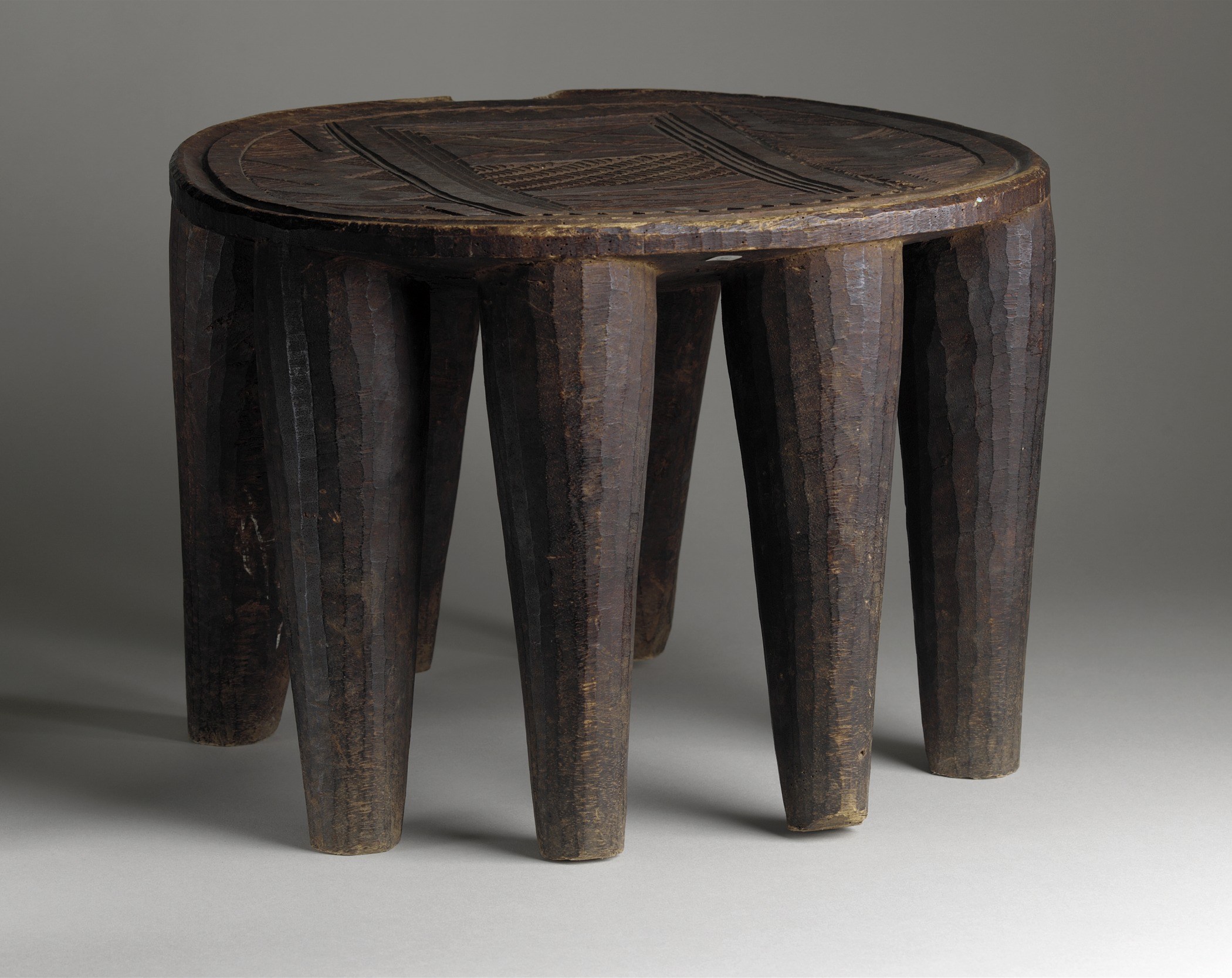 Africa, Northern Nigeria, Nupe peoples Furnishings; Furniture Wood Height: 16 in. (40.64 cm) Gift of Diane R. Wedner and Ronald M. Ziskin (AC1993.218.11) African Art